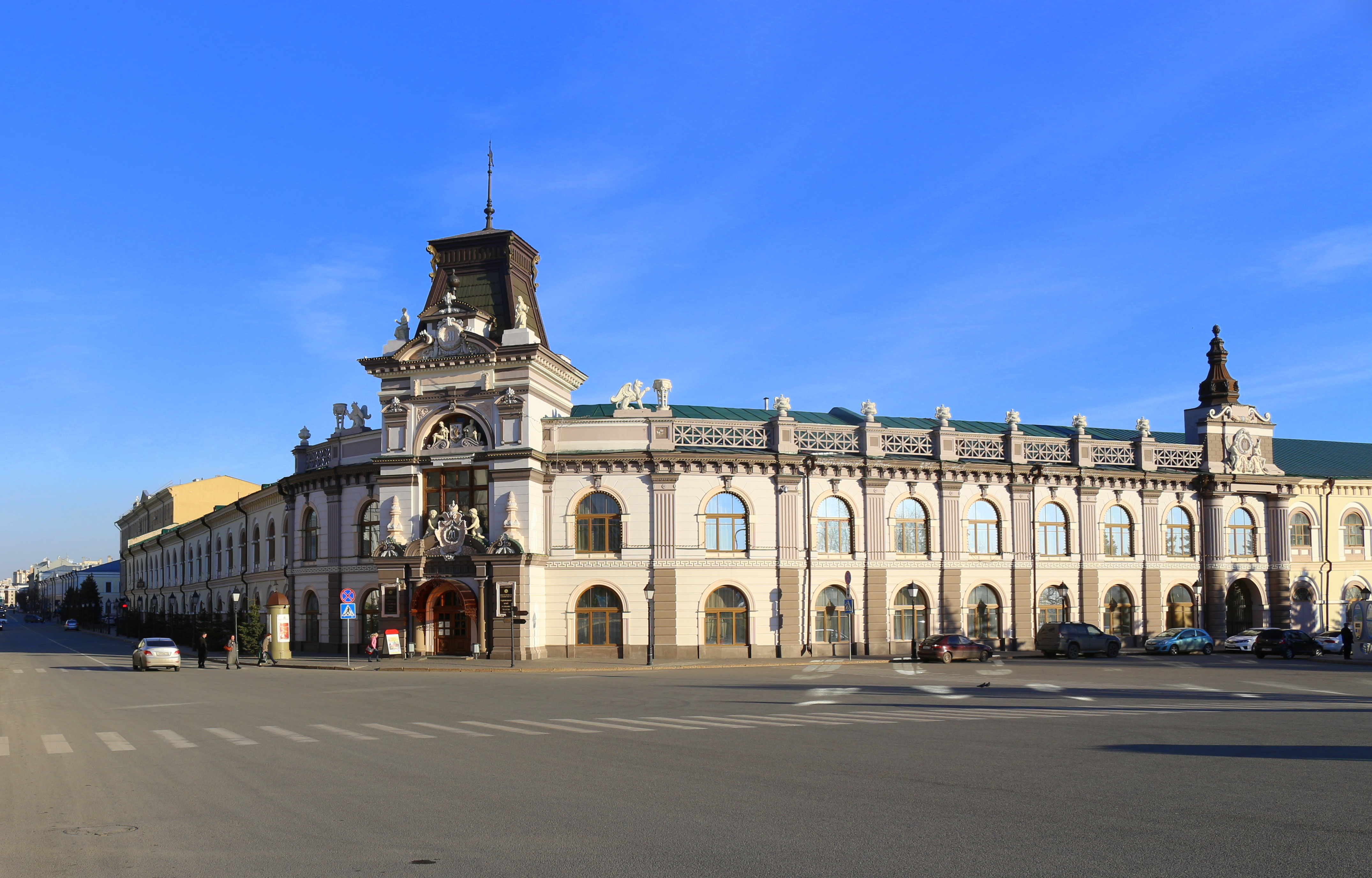 Tatarstan's National Museum